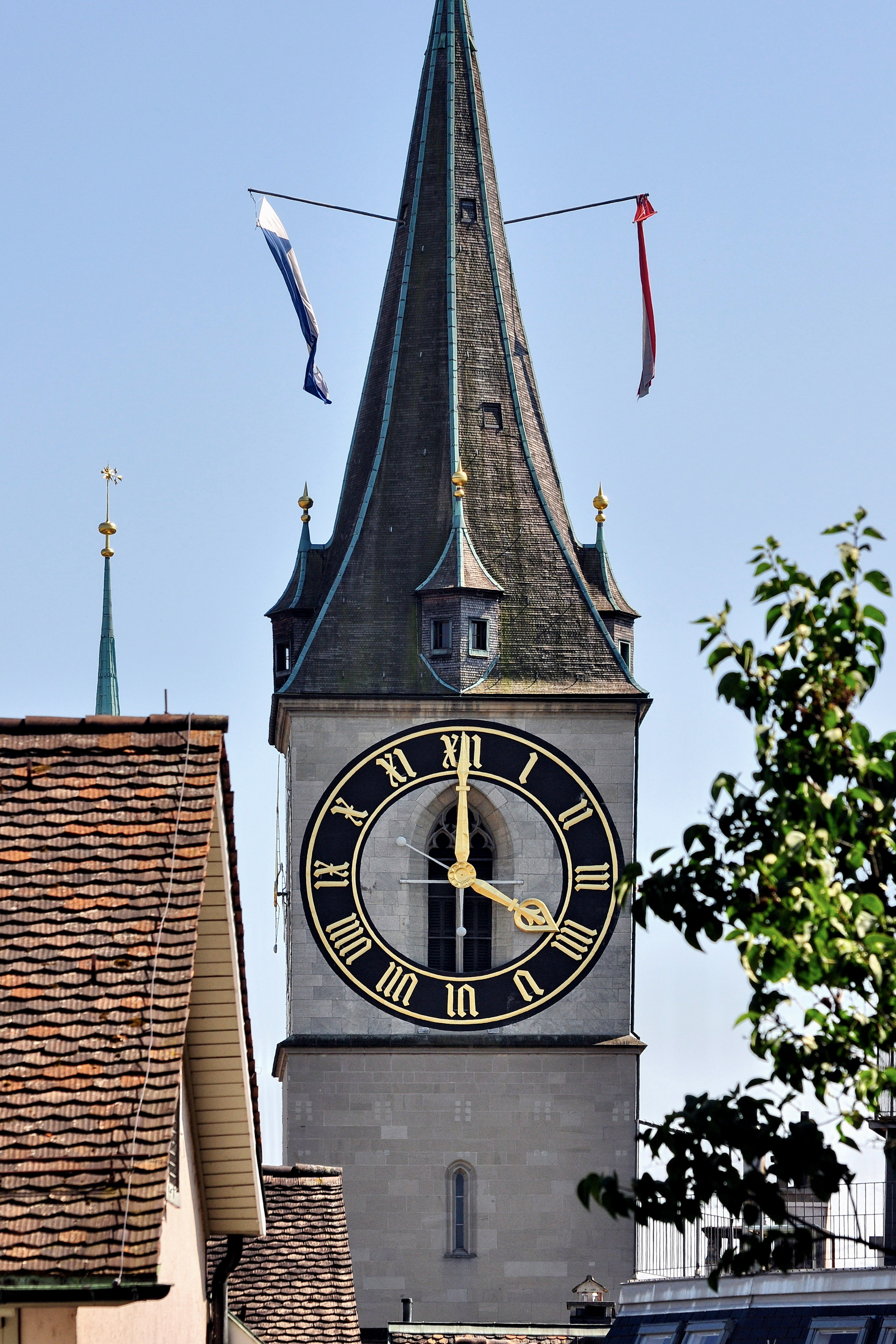 St. Peter church and its tower clock in Zürich (Switzerland) as seen from Lindenhof hill